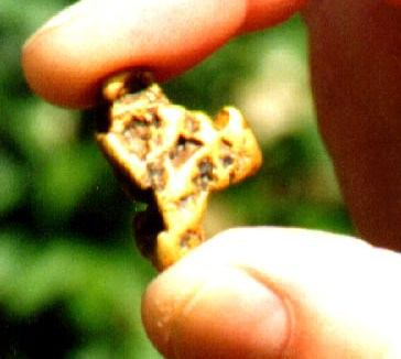 Alaska gold nugget recovered from the Cache Creek area